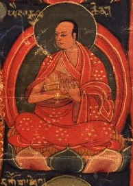 Yeshe Gyeltsen, 14-15th Century Sakya Lama, Tibet